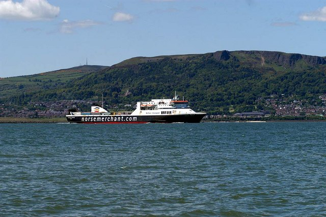 Lagan Viking Belfast Lough IMO Number: 9329849 MMSI Number: 235065969 Callsign: 2BGR6 Length: 186 m Beam: 26 m Lagan Viking sailing up Belfast Lough on the 12:30 sailing to Liverpool. Black Mountain television transmitter above the stern of the Lagan Viking. The Cavehill directly behind the bridge of the Lagan Viking.